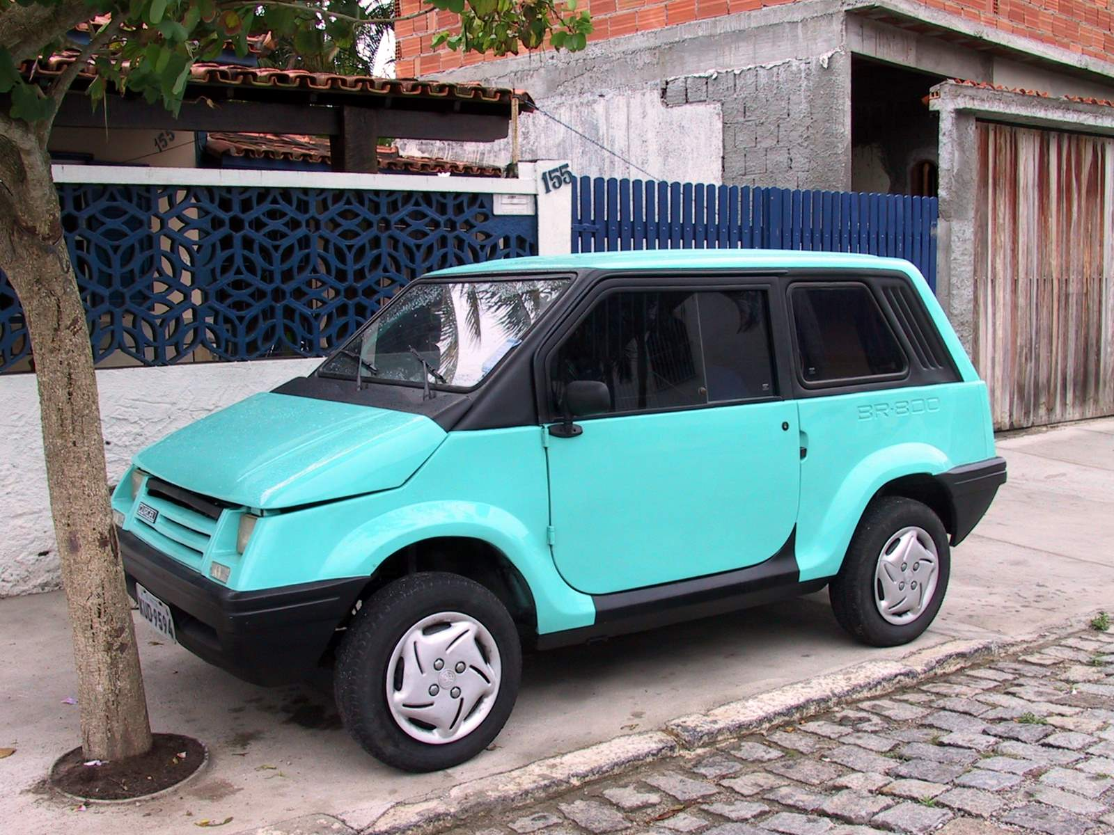 Gurgel BR-800, Brazil's first domestically designed car